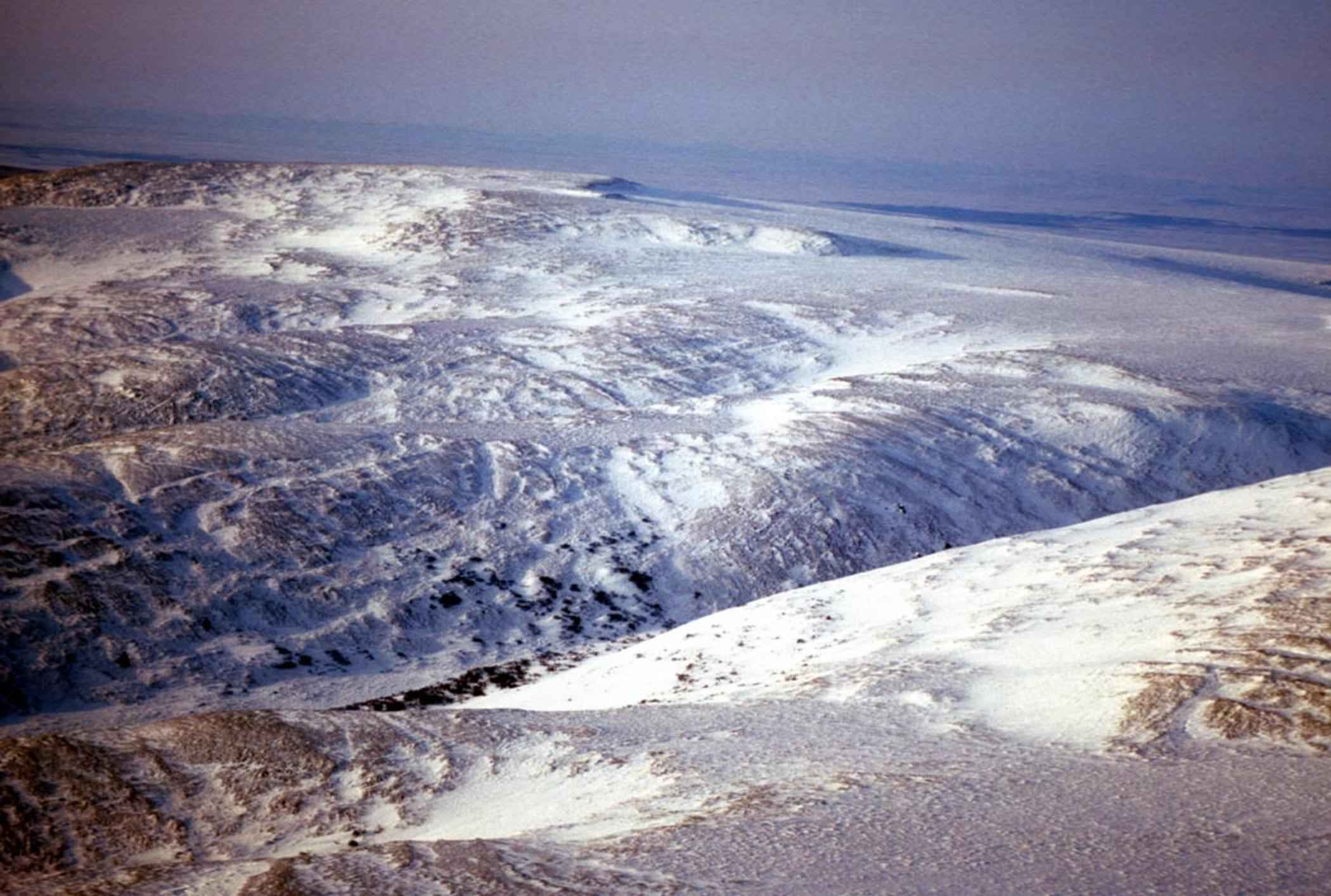 Image title: Aerial view of the Purcell mountains Image from Public domain images website